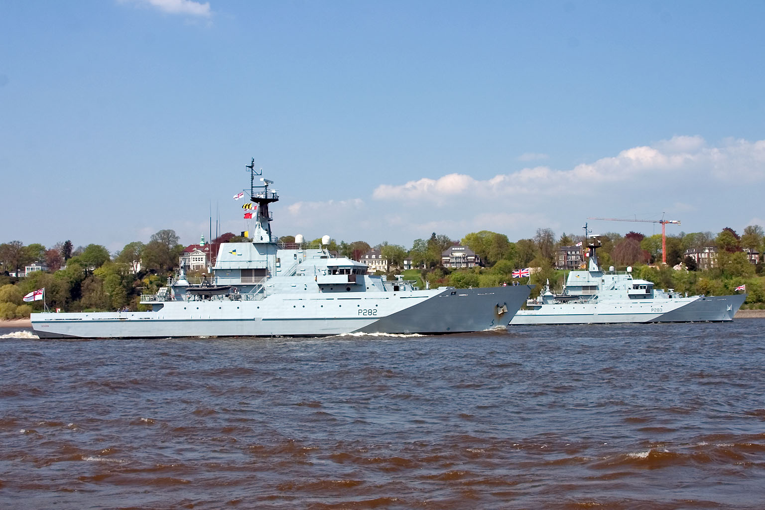 HMS Severn (P282) and HMS Mersey (P283), two River class offshore patrol vessels of the British Royal Navy, on the river Elbe in Hamburg, Germany.